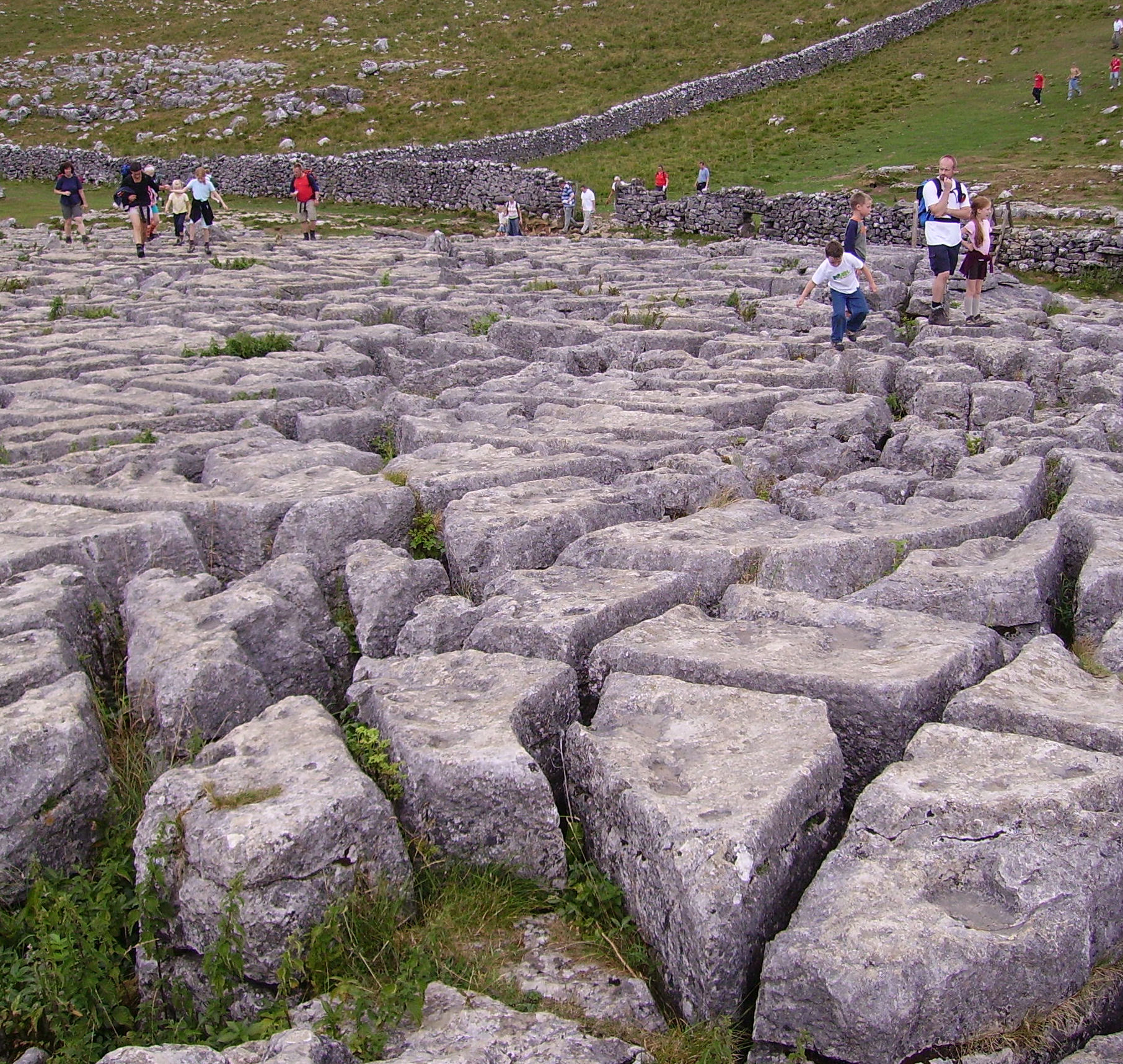 The Limestone pavements of Malham Cove near Malham in the Yorkshire Dales, United Kingdom